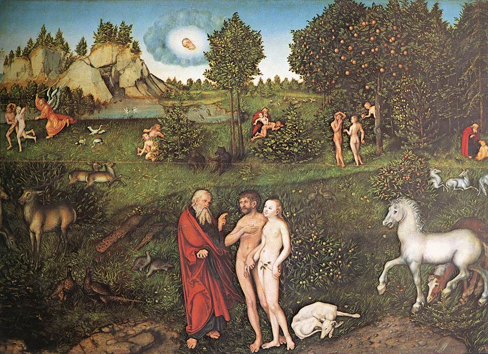 In the foreground: Prohibition of God to Adam and Eve, in the middle ground: Creation of Adam, the Fall, Discovery of the Fall, the Expulsion from Paradise